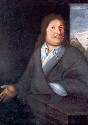 Depicted person: Johann Ambrosius Bach